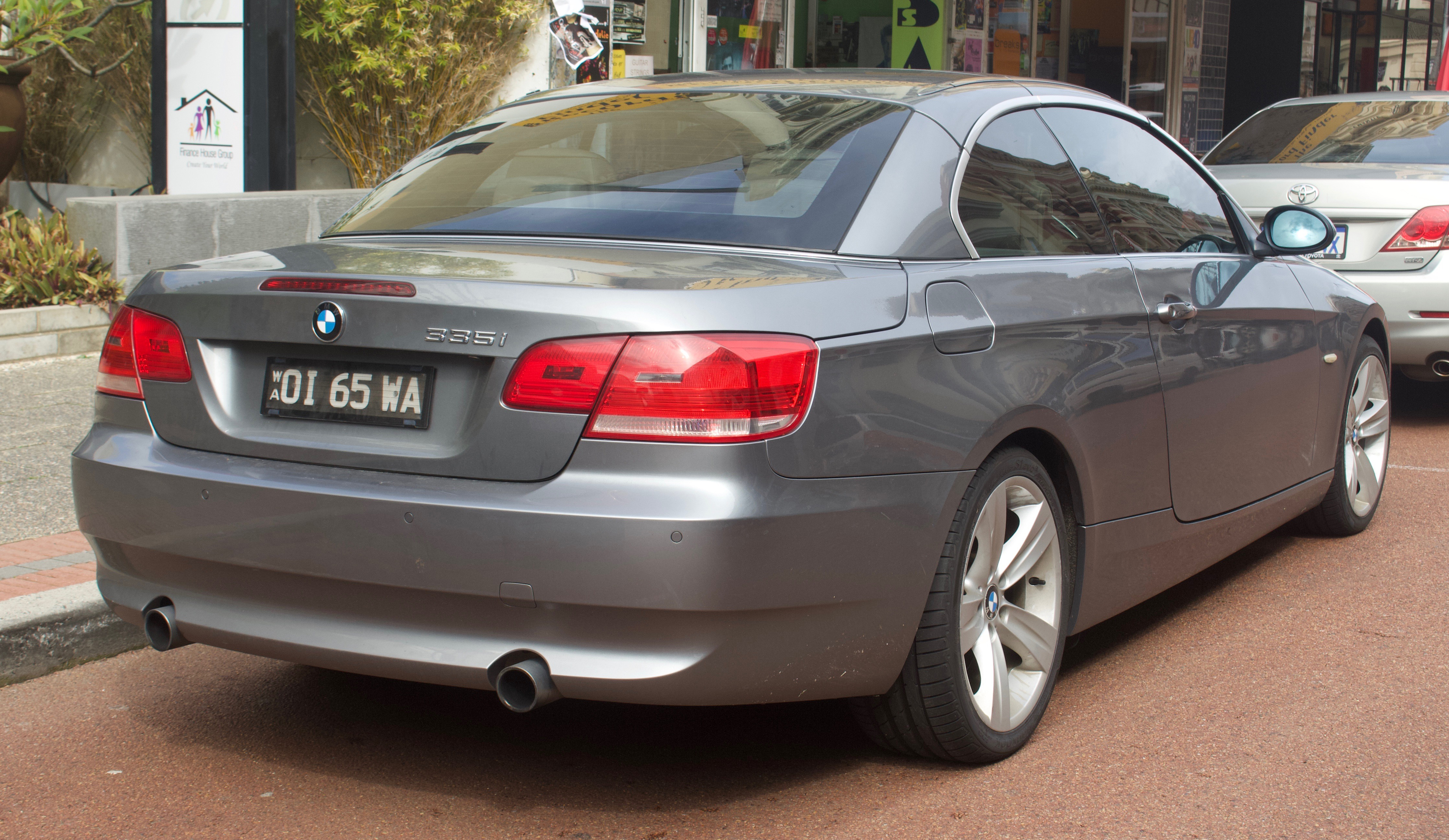 2007-2009 BMW 335i (E93) convertible. Photographed in Fremantle, Western Australia, Australia.